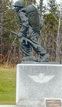 “INTO ACTION” by Andre Gauthier marks the 20th anniversary of the Canadian Airborne Regiment by depicting a paratrooper in Winter combat gear at the entrance to CFB Petawawa's Airborne Forces Museum.